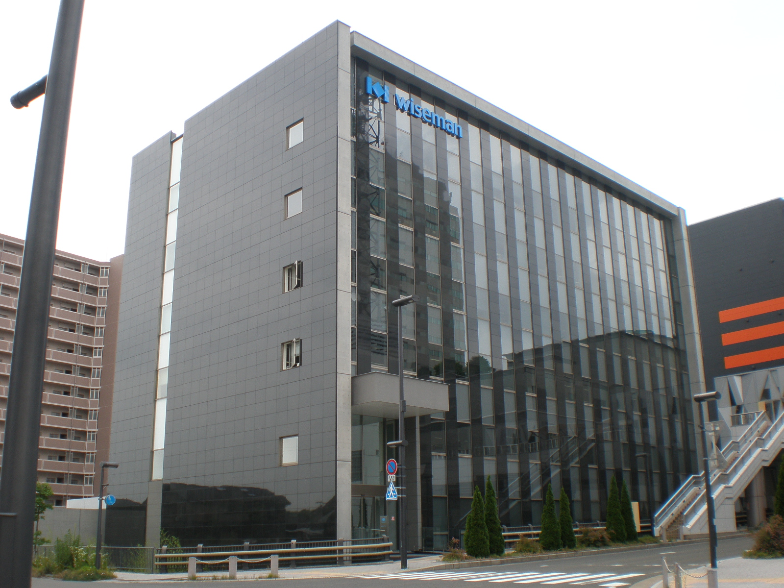 Headquarters of Wiseman Corporation in Morioka, Iwate Prefecture, Japan.